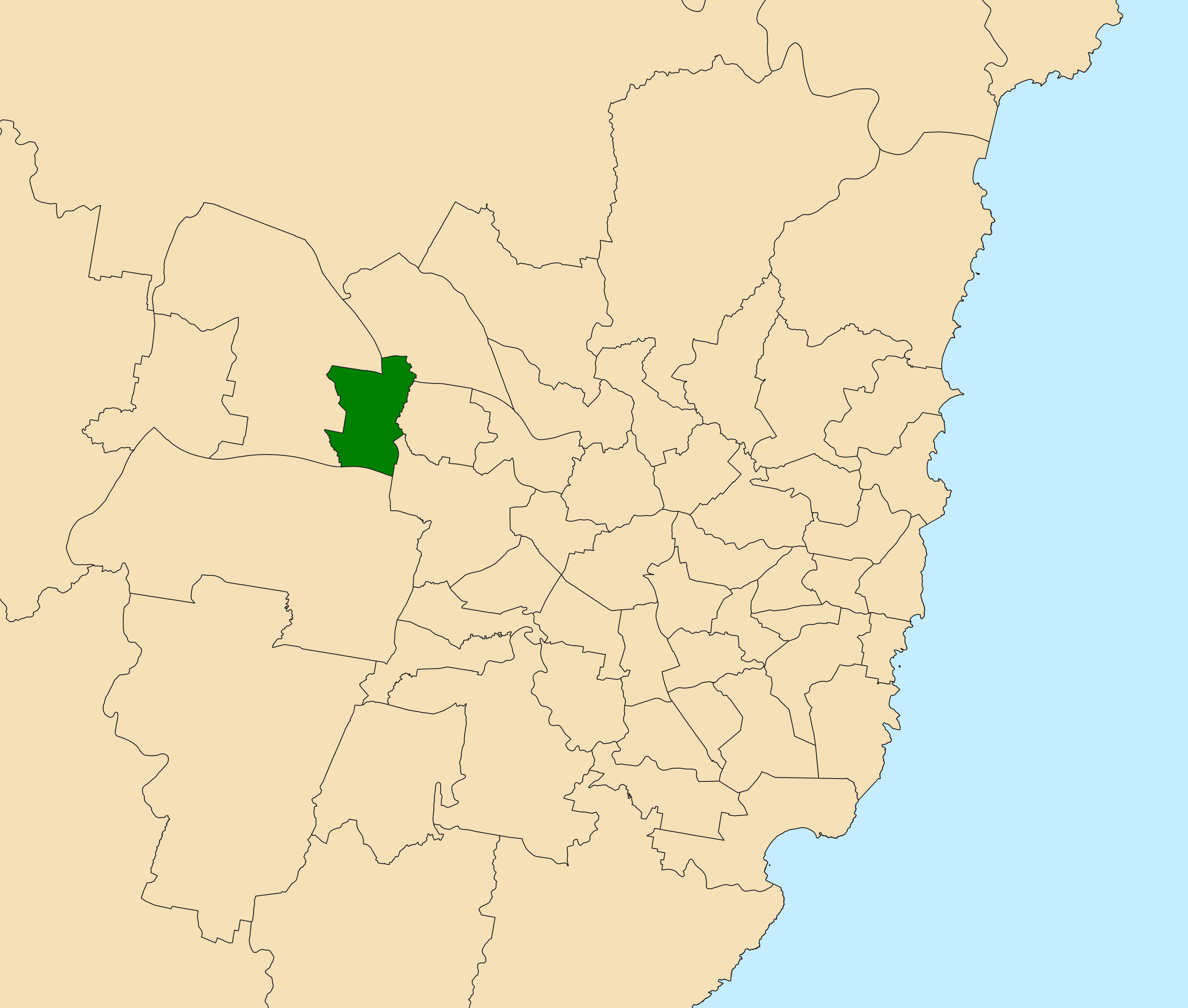 Location of the state electoral district of Mount Druitt (dark green) in the metropolitan Sydney area as of the 2019 New South Wales state election. Incorporates or developed using Administrative Boundaries ©PSMA Australia Limited licensed by the Commonwealth of Australia under Creative Commons Attribution 4.0 International licence (CC BY 4.0).